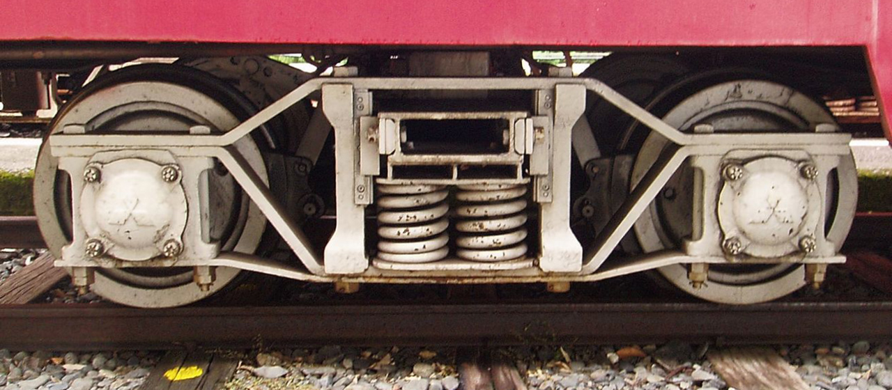 Archbar bogie truck of Oigawa Railway type Suroni200. 大井川鐵道井川線で使用されているアーチバー台車 川根小山駅にて 2007-10-09 Photo by Cassiopeia_sweet.